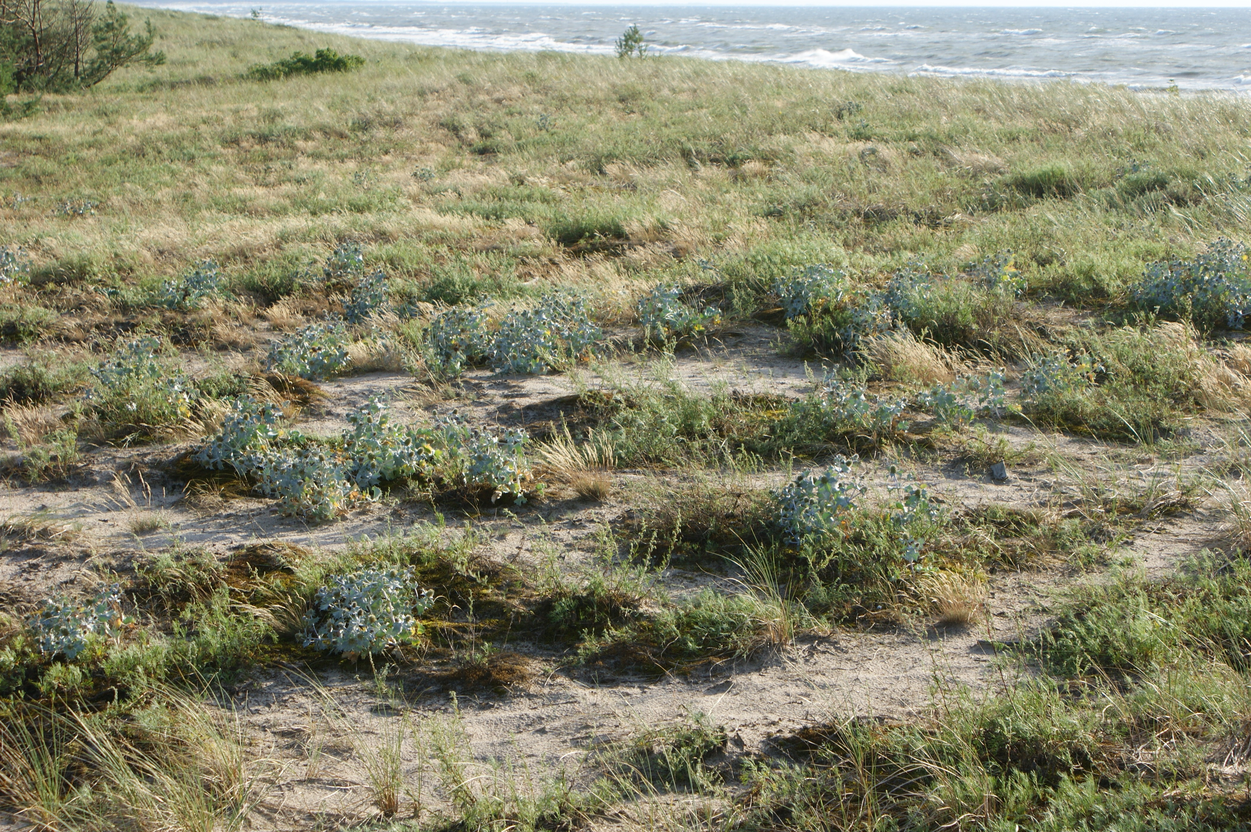 Eryngium maritimum in Darłowo on Baltic See.